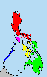 Biogeographic regions in the Philippines. Red: Greater Luzon, Green: Greater Mindanao, Yellow: Greater Negros-Panay, Purple: Mindoro, Blue: Greater Palawan, Orange: Sulu Islands, White: Small regions